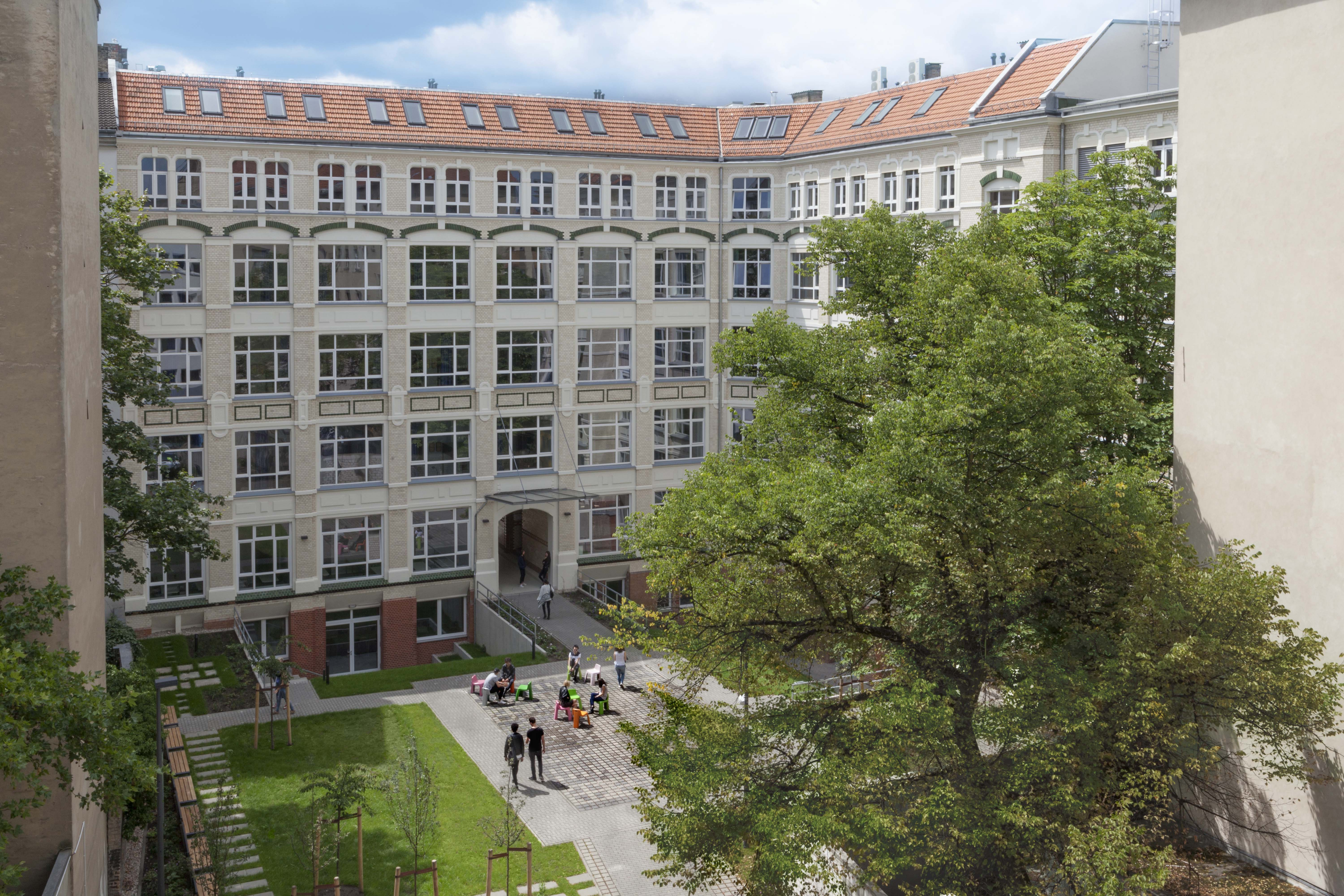 Exterior photo of Macro Sea's G27 Global Institute